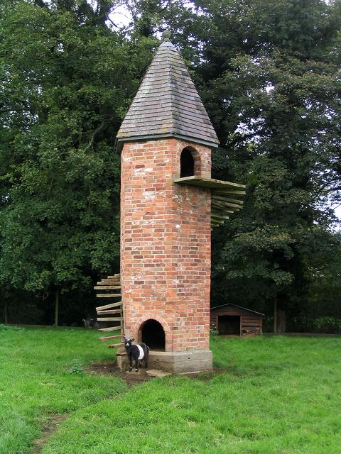 The Goat Tower, Cholmondeley castle grounds There are a number of African pygmy goats here, but they refused point-blank to go up the stairs, as they're supposed to.